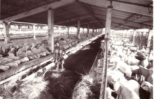 sheep farm in Fibiș, Timiș County, Romania (1973)